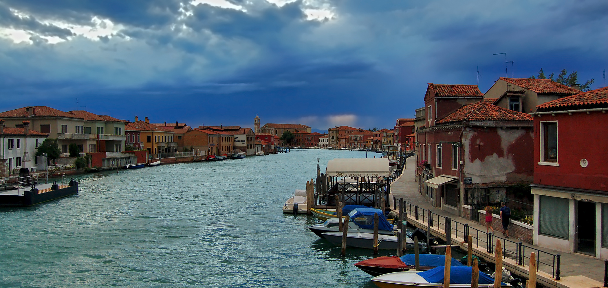 View of the Canal Grande di Murano from the Ponte Vivarini bridge, in Murano, Venezia